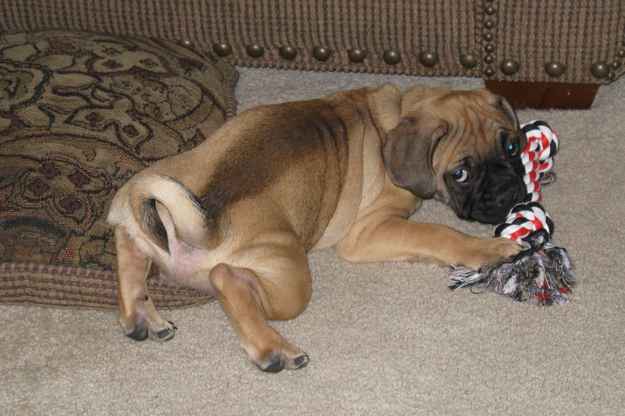 4 month old puggle (3/4 pug x 1/4 beagle), both of his parents are also 3/4 pug x 1/4 beagle